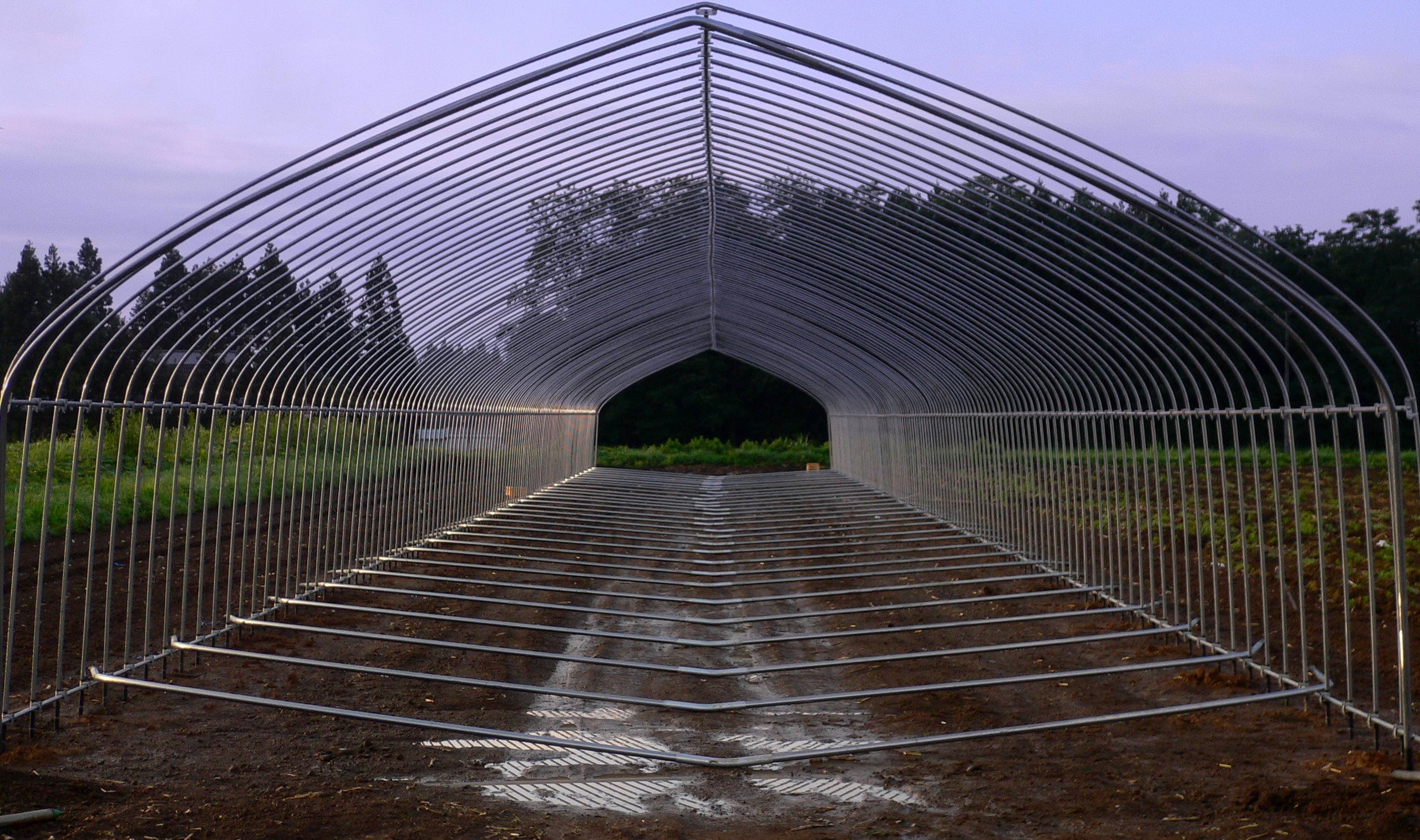 Greenhouse Frame.